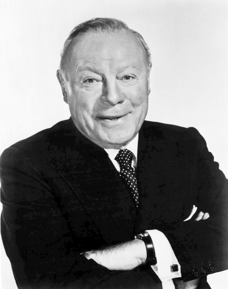 Photo of Edmund Gwenn from a presentation on the television program Schlitz Playhouse of Stars.